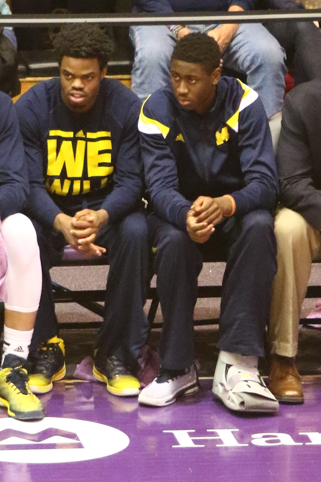 Caris LeVert and Derrick Walton for the w:2014–15 Michigan Wolverines men's basketball team at Welsh-Ryan Arena